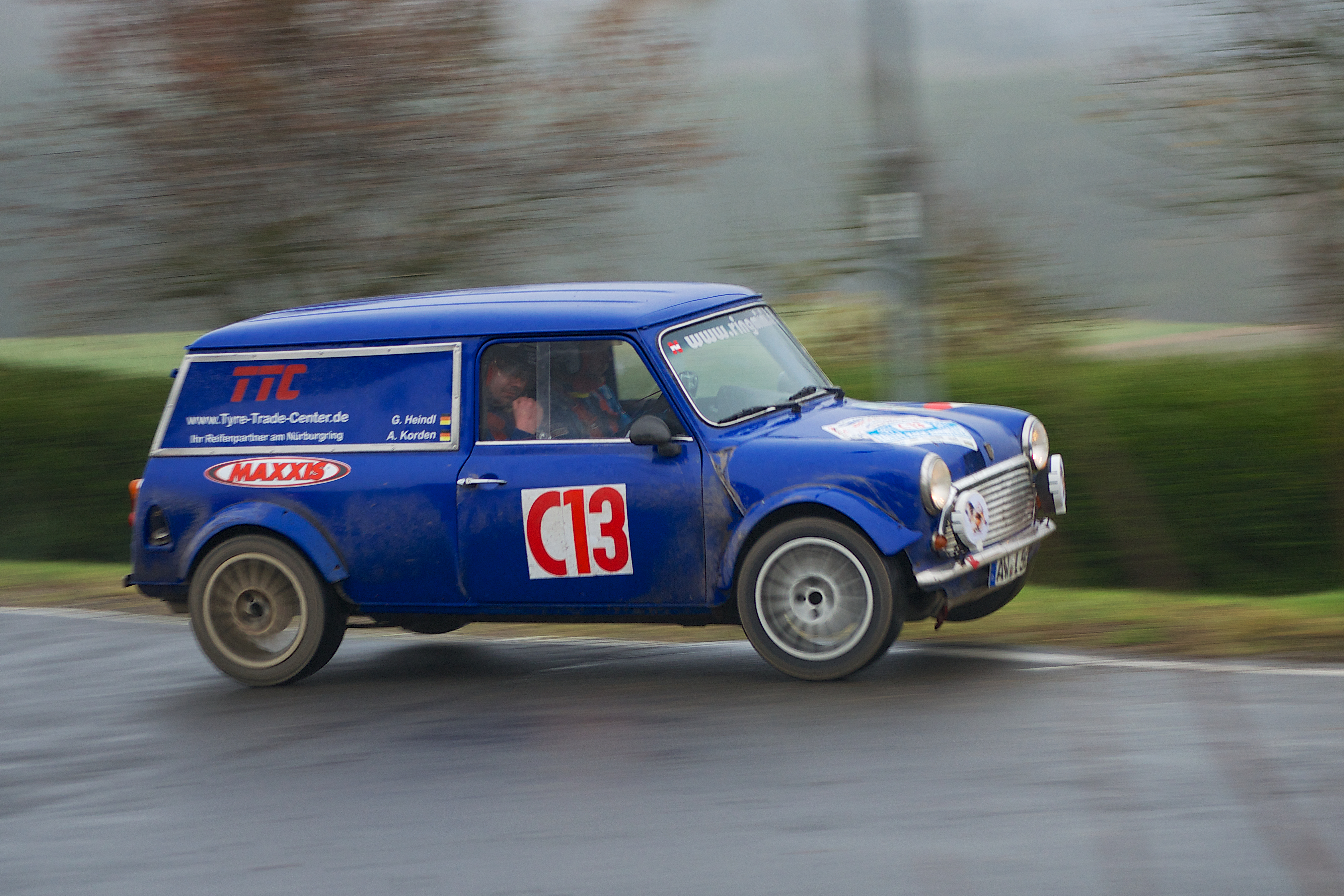 Advance Car in the course of the 2012 Rallye Köln-Ahrweiler, Mini Clubman from 1982 driven by Achim Korden and co-driver Guido Heindl